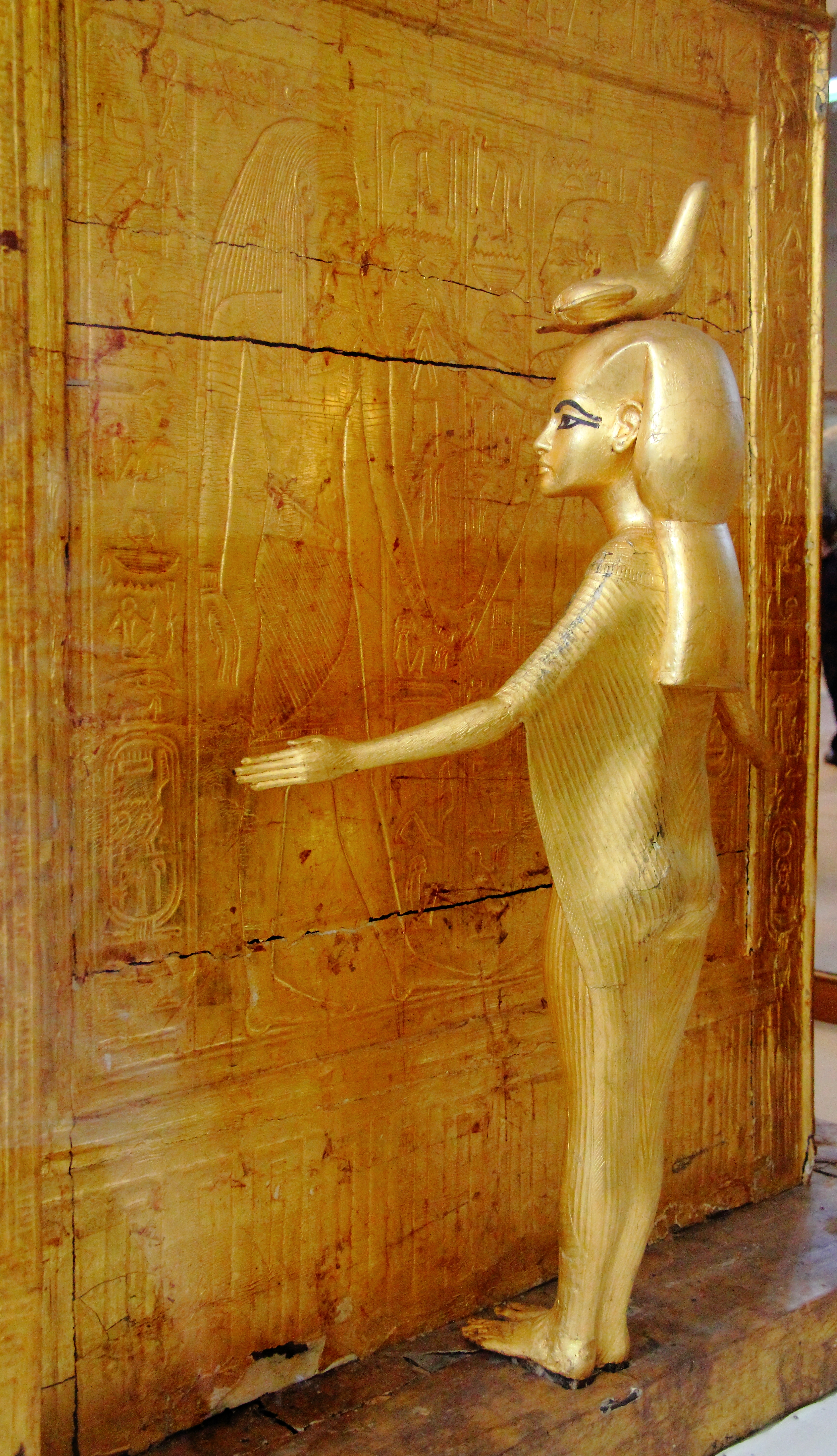 Egyptian Museum, Cairo: Material from the tomb treasure of king Tutankhamun, 18th dynasty, New Kingdom of Egypt